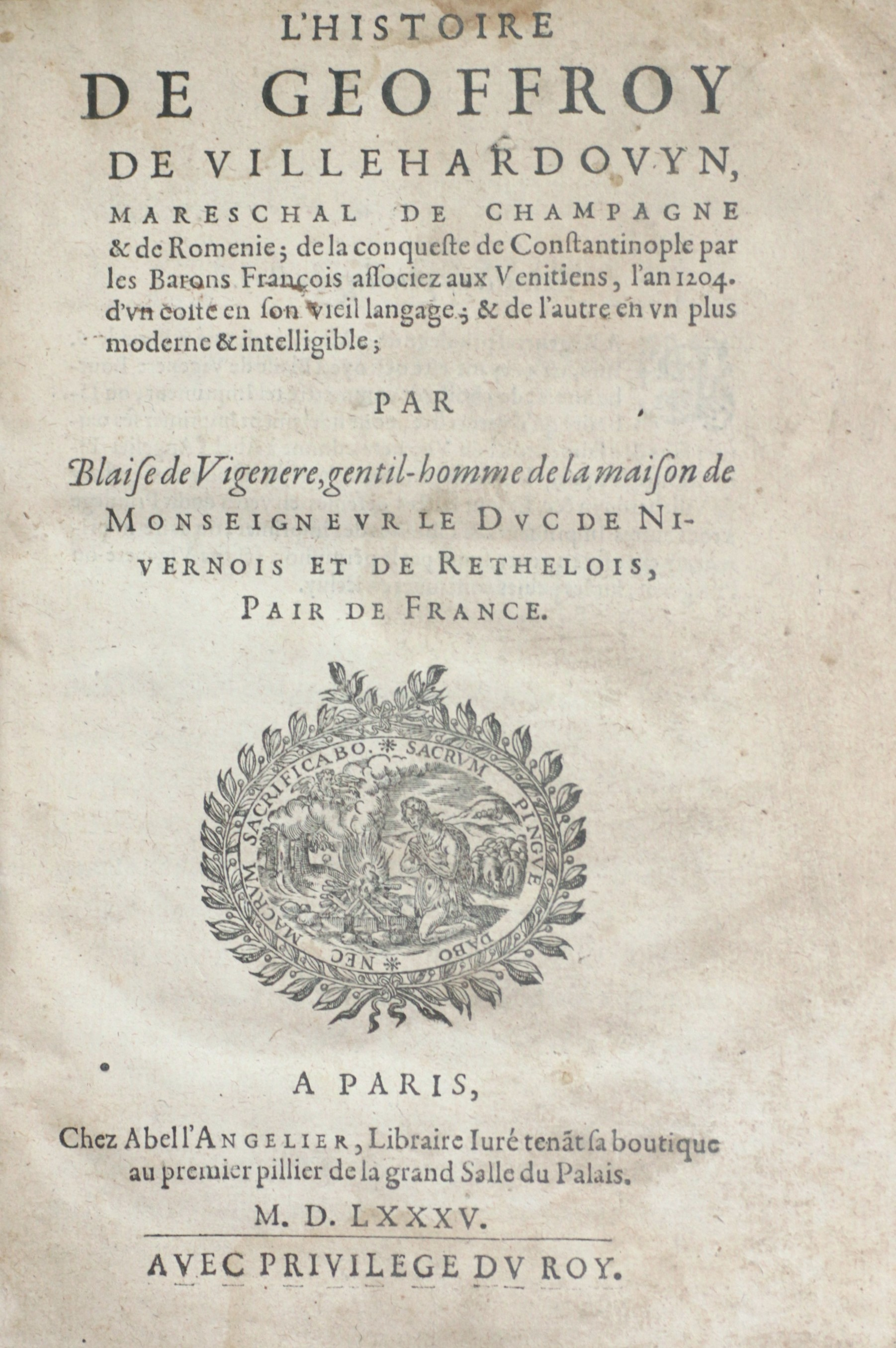 Villehardouin / translation Vigenere: Histoire de Geoffroy de Villehardouin